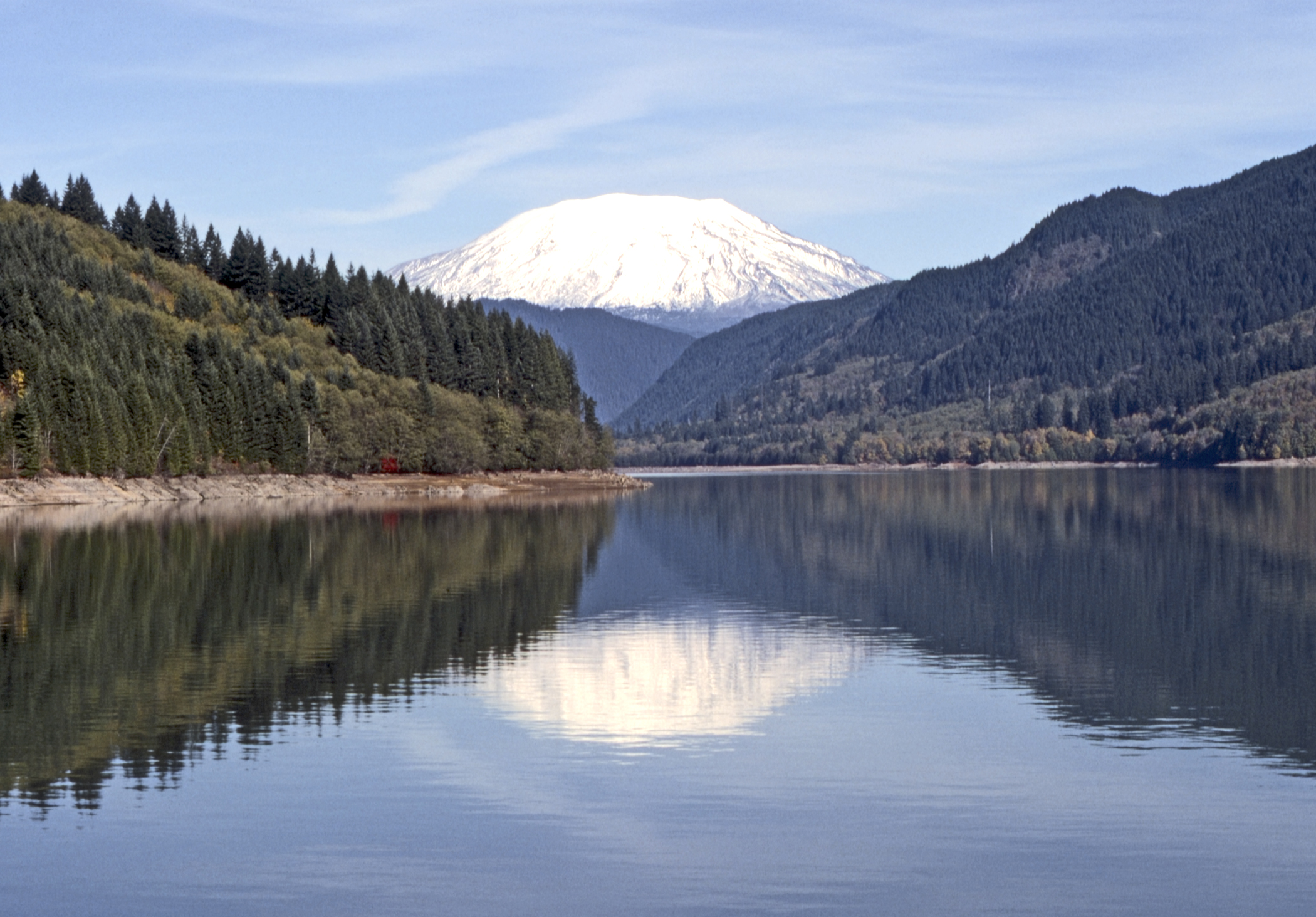 Taken approximately 18 months after the May 18, 1980 eruption. The mountain lost over 1200 feet (365 meters) from the summit on that date. (Scanned from 35mm Kodachrome 25 slide)